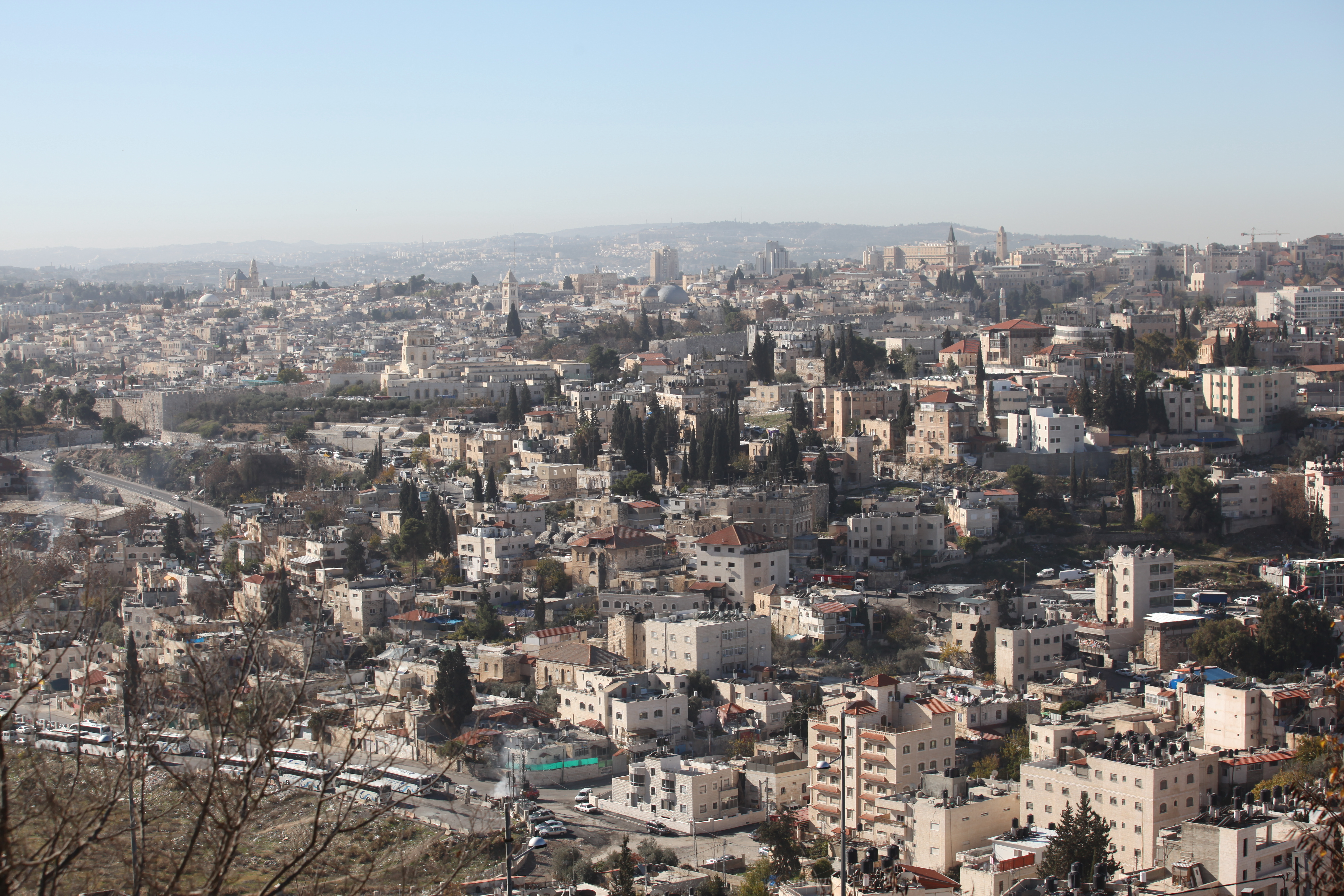 East Jerusalem, Wadi al Joz (view from Mount Scopus).